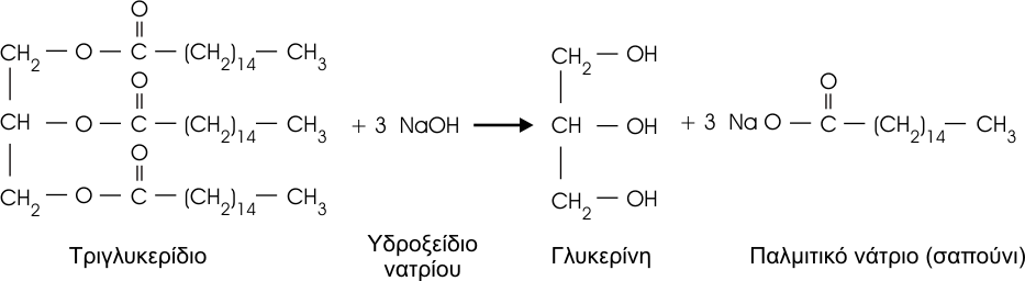 Saponification reaction